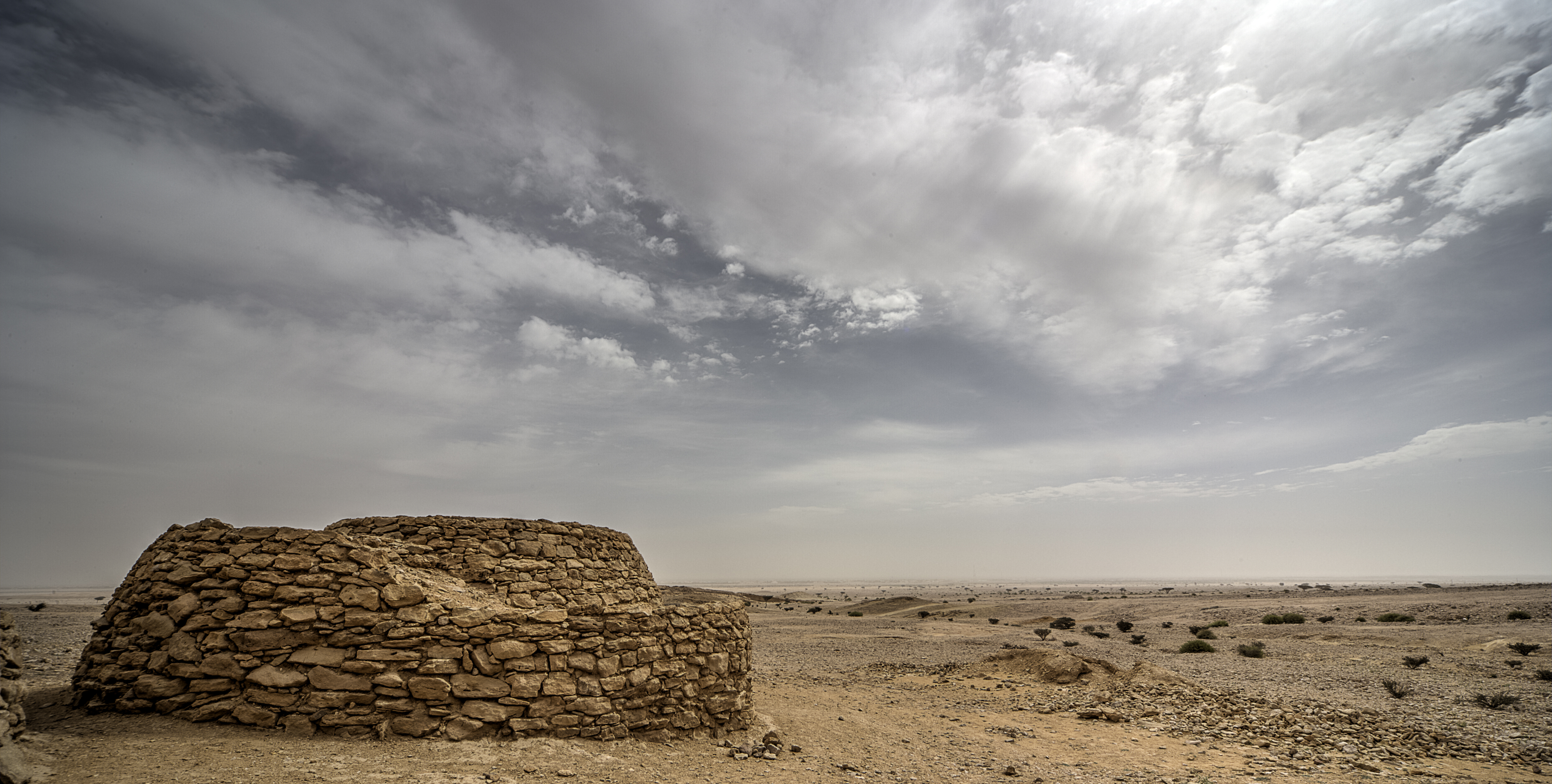 The Beehive Tombs in the Jebel Hafeet district are evidence of human habitation in the area some 5000 years ago